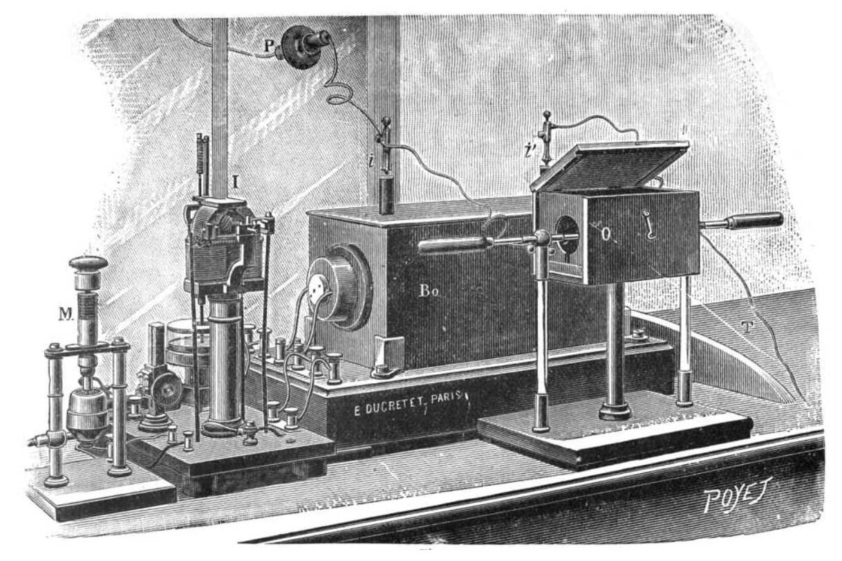 Early spark-gap tramsmitter manufactured by Eugene Ducretet between 1897 and 1904 for wireless telegraphy communication. Labeled parts are: (O) Spark gap mounted in box to muffle its noise, (Bo) Induction coil, (I) Interrupter for induction coil, (M) Oil-break telegraph key, (P) Antenna wire, (T) Ground wire (i,i') High voltage terminals of coil